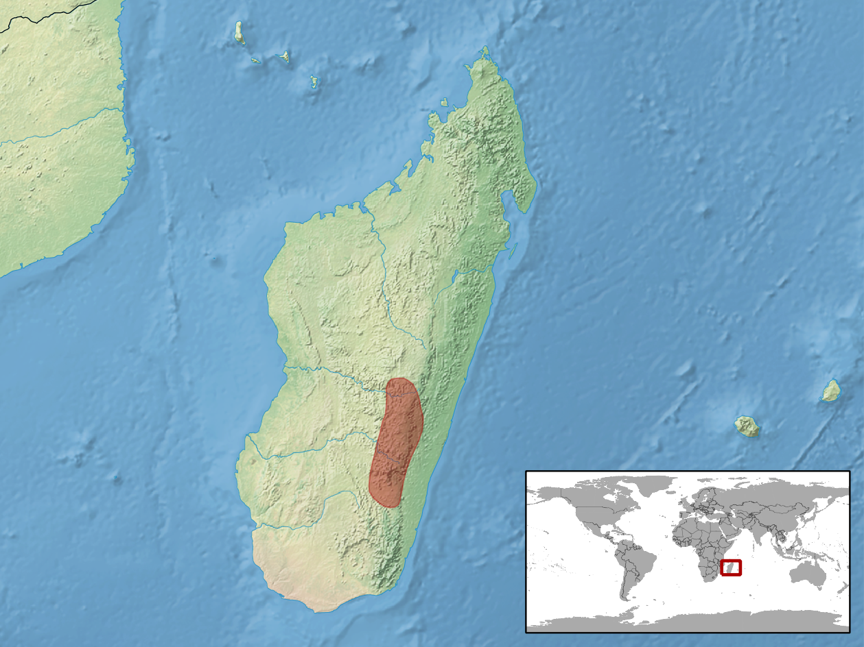 geographic distribution of Lygodactylus pictus (Native: Madagascar)